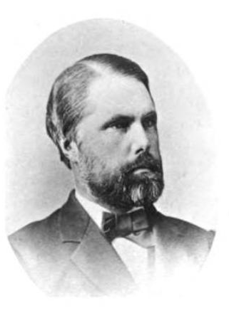 Record of the class of 1845 of Yale College: by Yale University. Class of 1845, Oliver Crane pg 86 (1881)